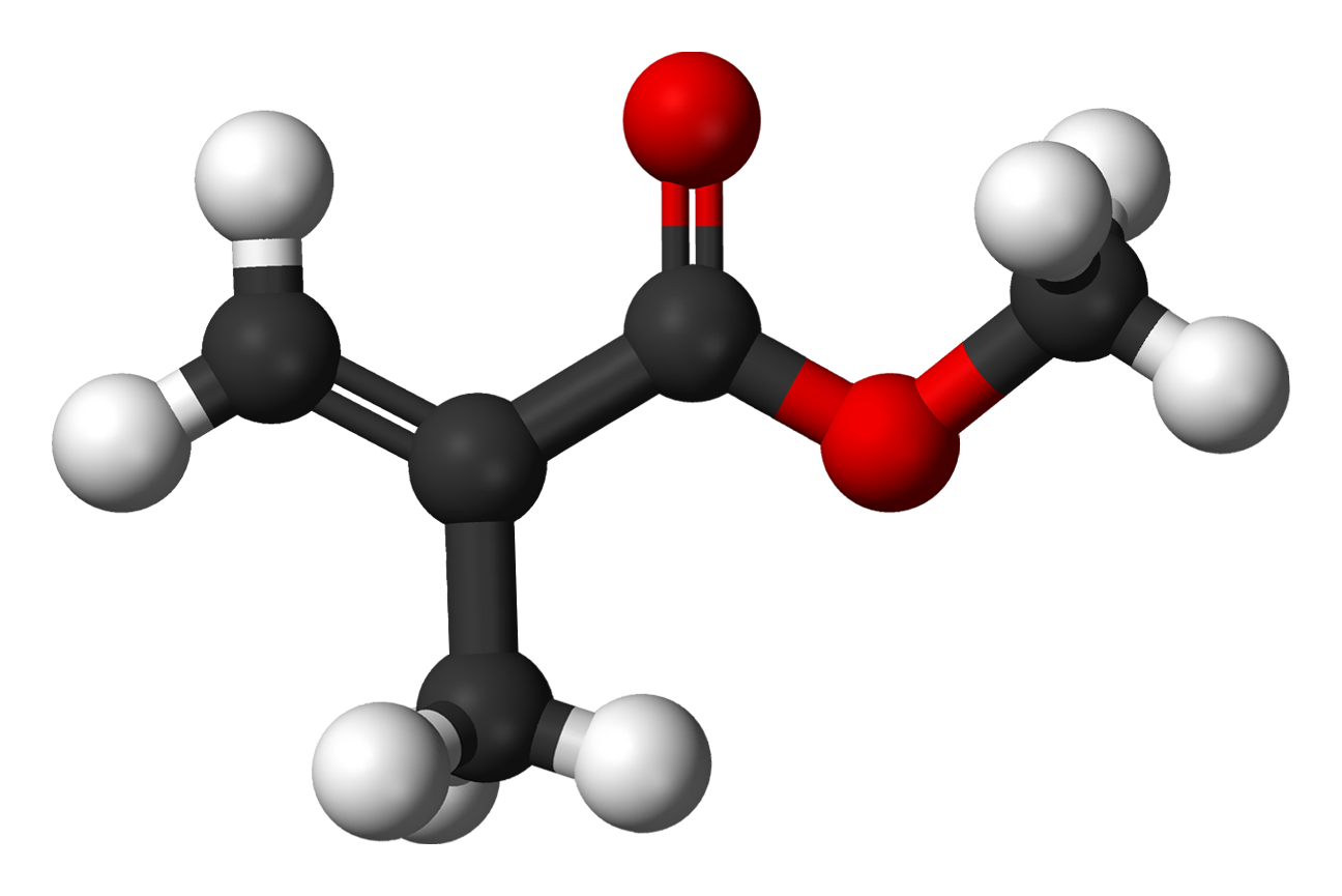 Ball-and-stick model of the methyl methacrylate molecule, the ester of methanol and methacrylic acid.